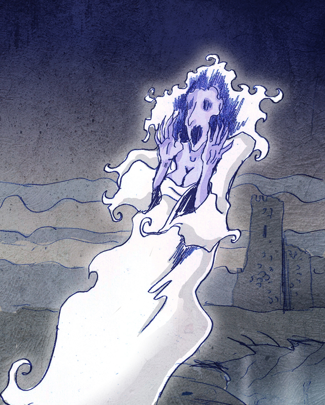 Illustration of a banshee by Philippe Semeria.